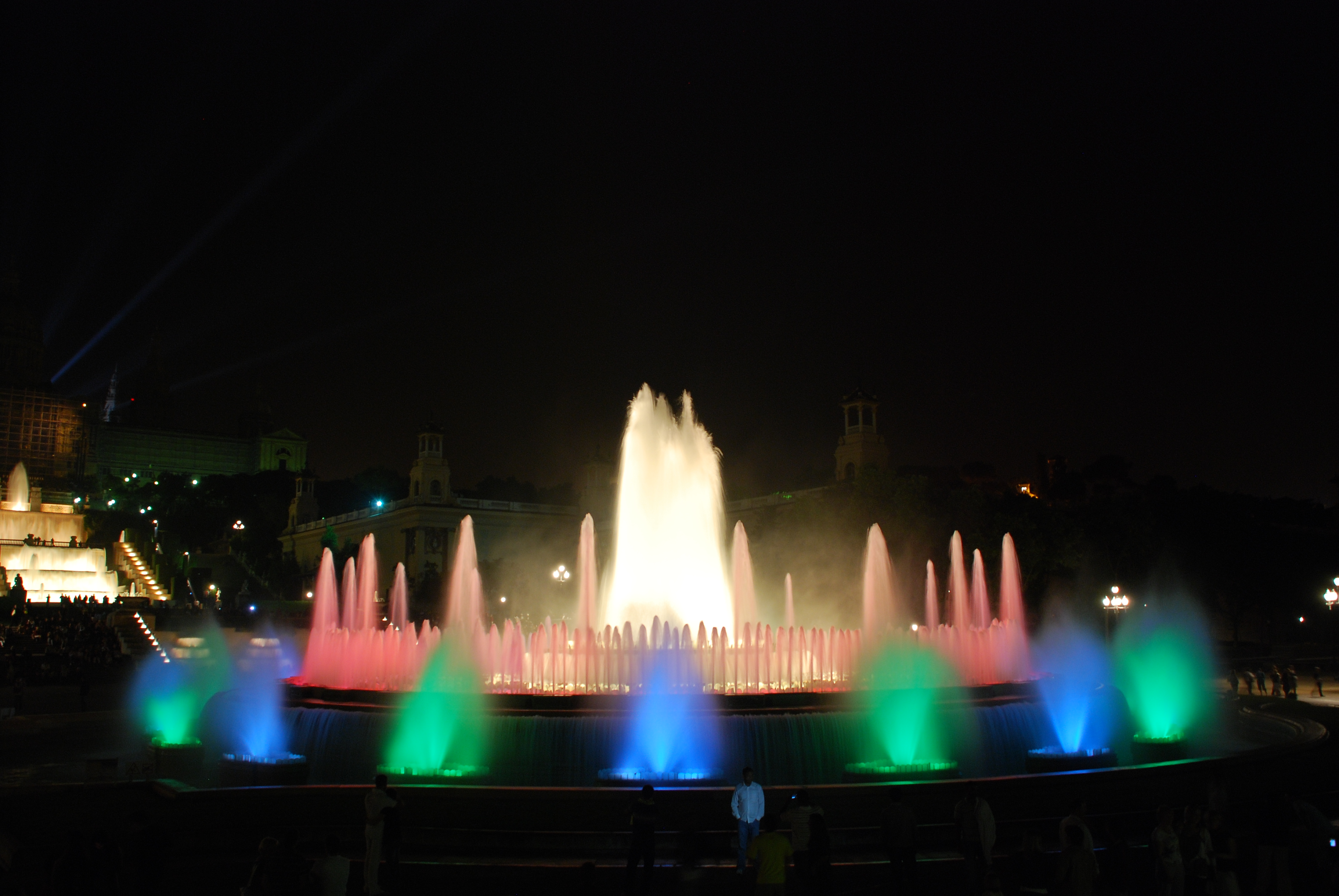 Montjuïc Light Fountain